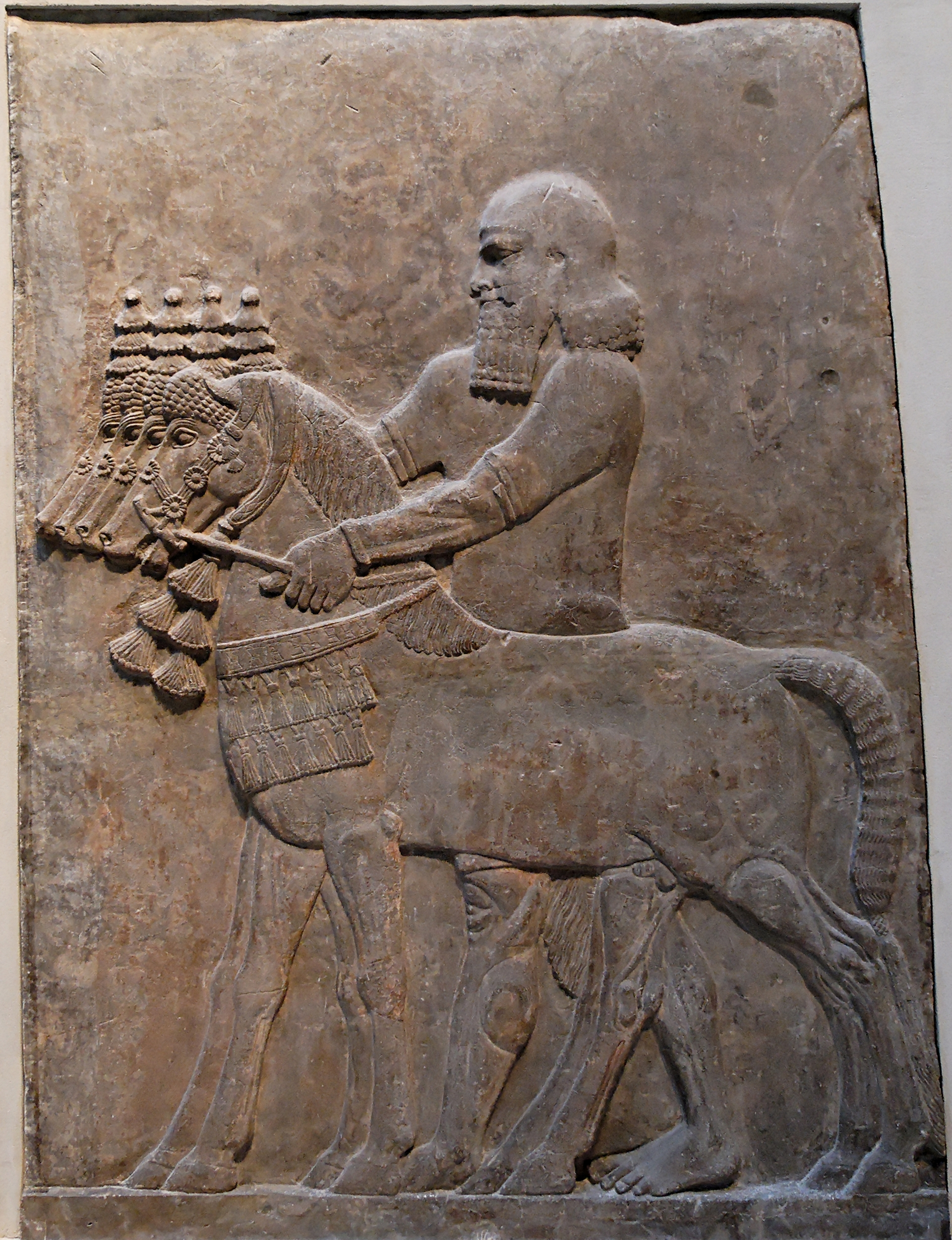 Groom leading horses. Relief from the L wall, Palace of Sargon II at Khorsabad (Dur Sharrukin), 713–706 BCE.